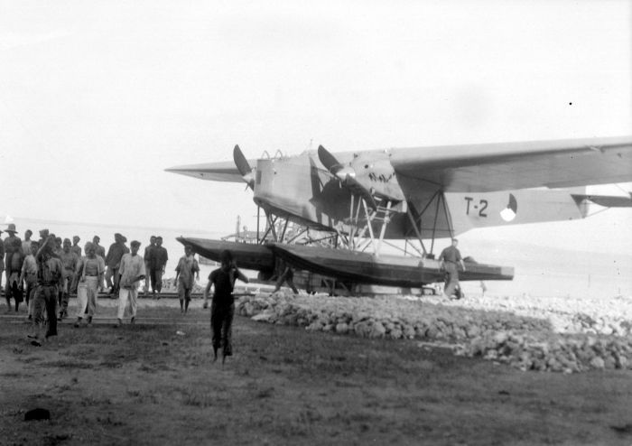 A Fokker T-IV aircraft at the base of the MLD